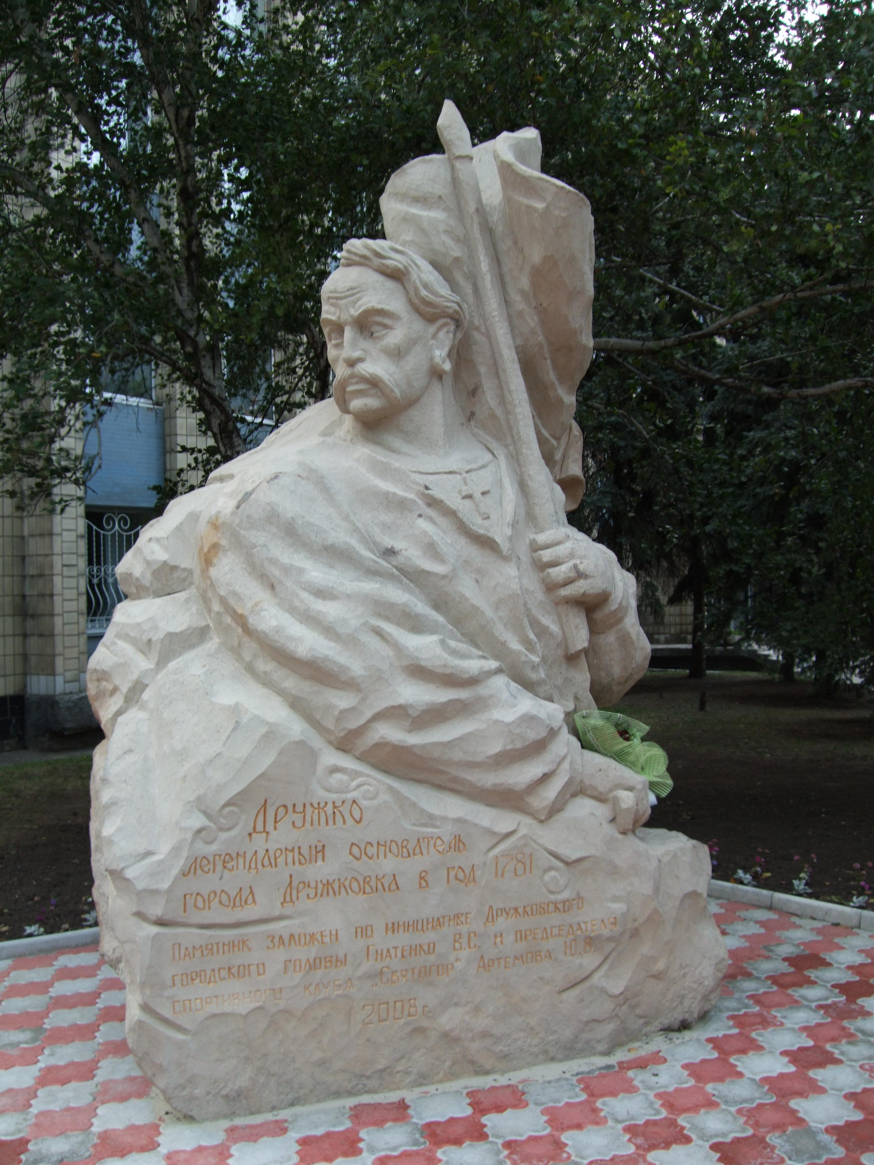 Monument to Druzhko. Legendary founder of Druzhkivka.